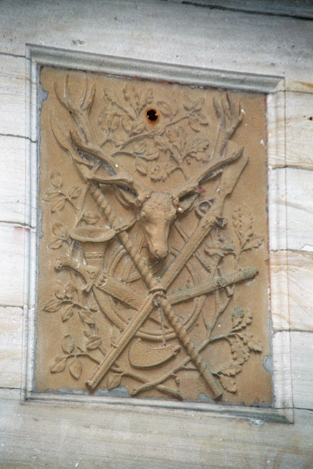 Georg Ludwig Hartig Monument in Darmstadt, Hesse, errected in 1840.